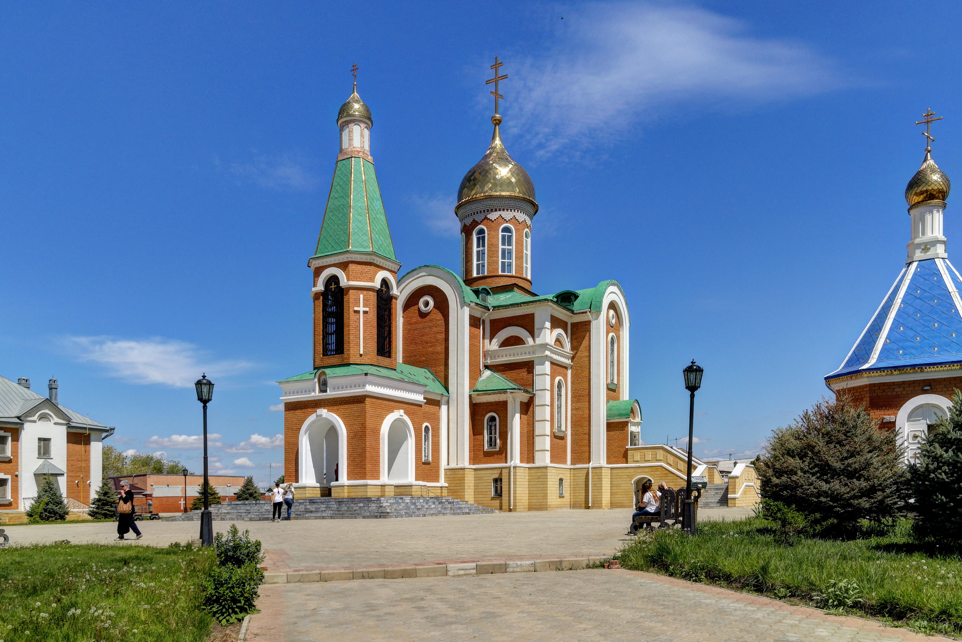 Krasny Yar. Church of Christ the Saviour